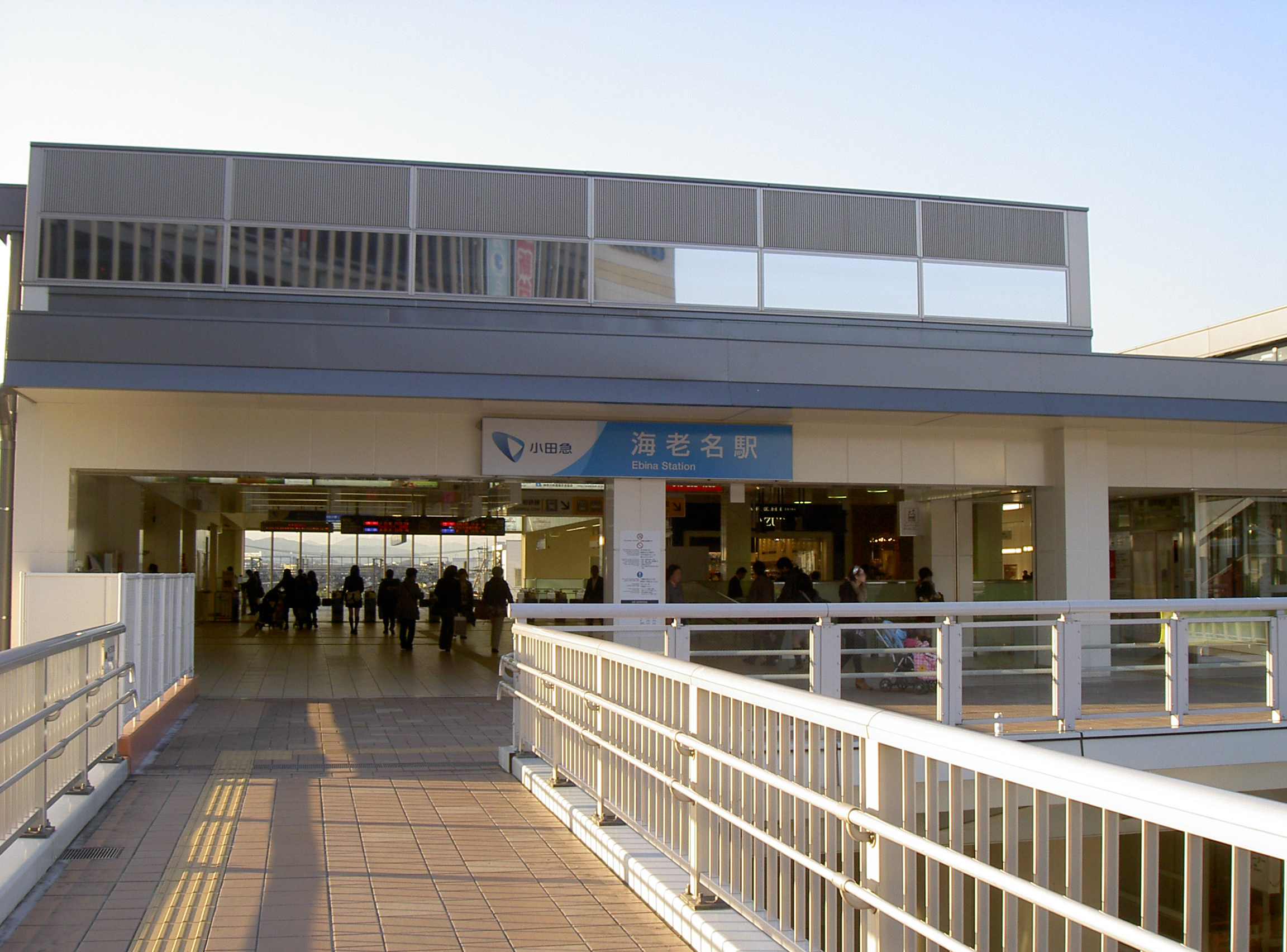 Ebina station, Odakyu line